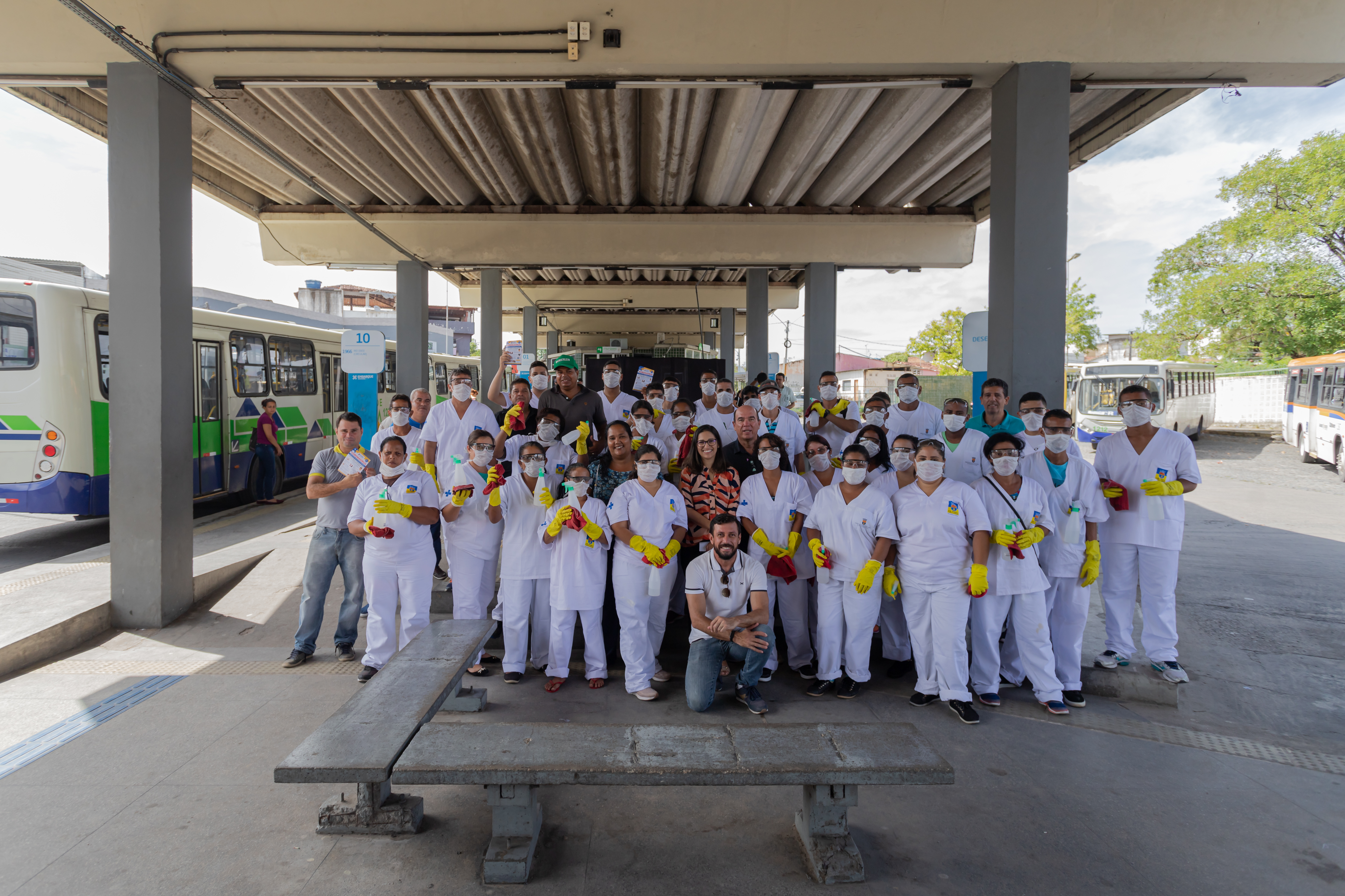 Foto: Arquimedes Santos / PMO